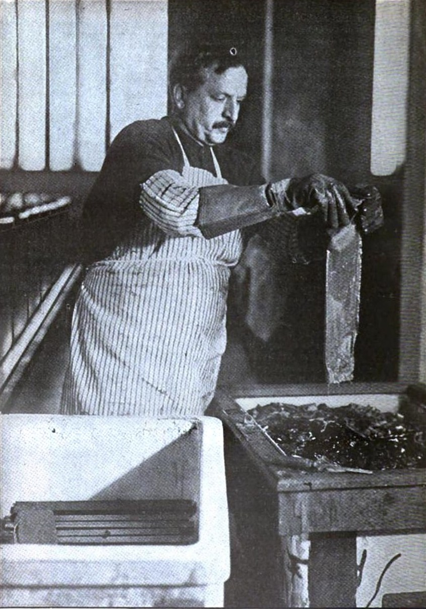 1916 photograph of an assayer performing an electrolysis test on a sample of gold. Out of the magazine The Outlook (New York). Original caption: "In the United States Assay Office at New York City · Vast quantities of foreign gold have come to the Assay Office since the beginning of the war. This gold is assayed, melted down, and recast into gold bars. The picture shows a detail of the process of electrolysis. The bin contains more than $100,000 worth of gold."